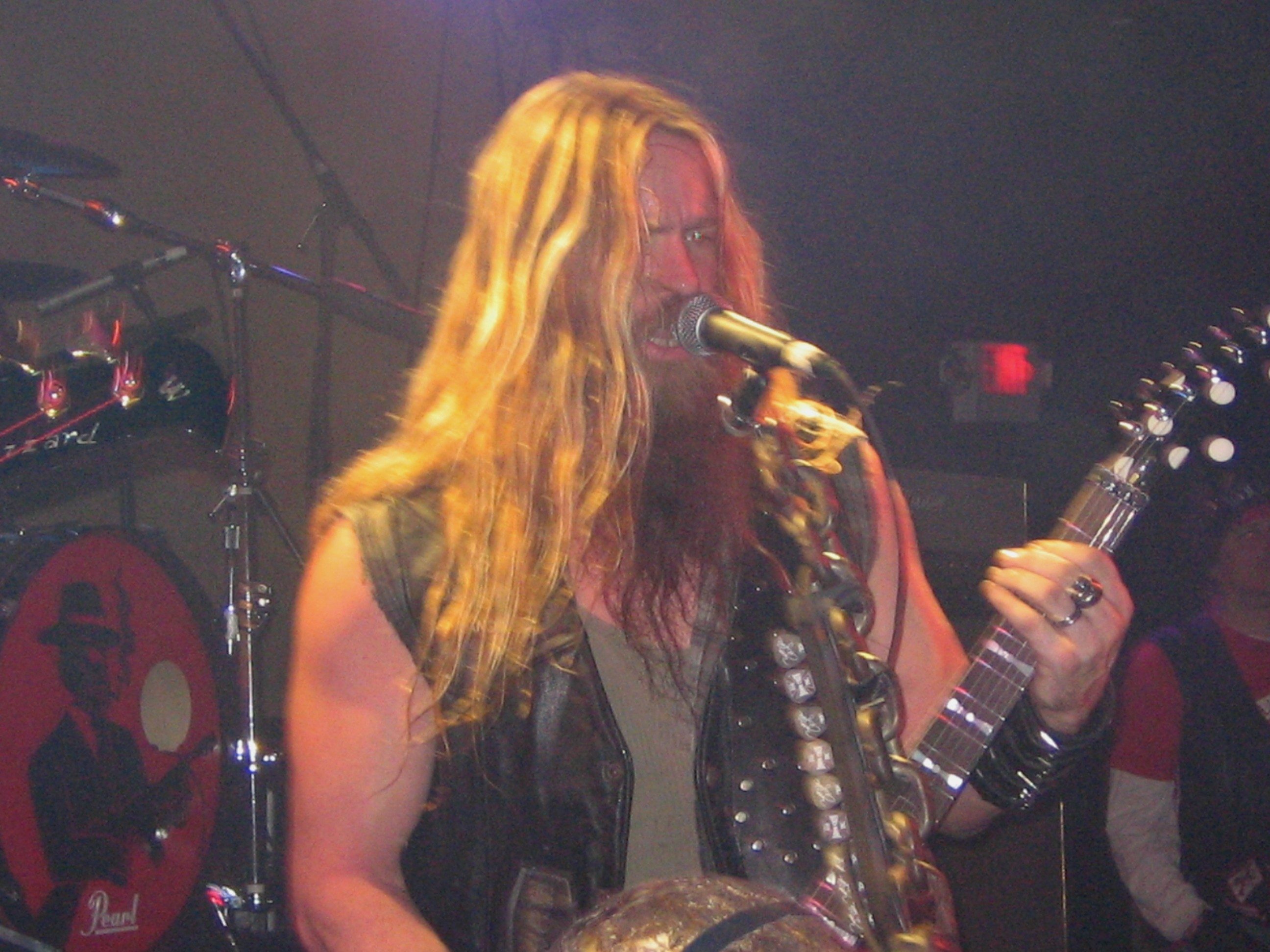 Zakk Wylde live (Recorded at Jaxx Nightclub in Springfield, VA)